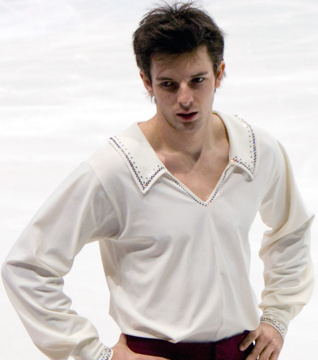 2010 Cup of Russia, free skating.